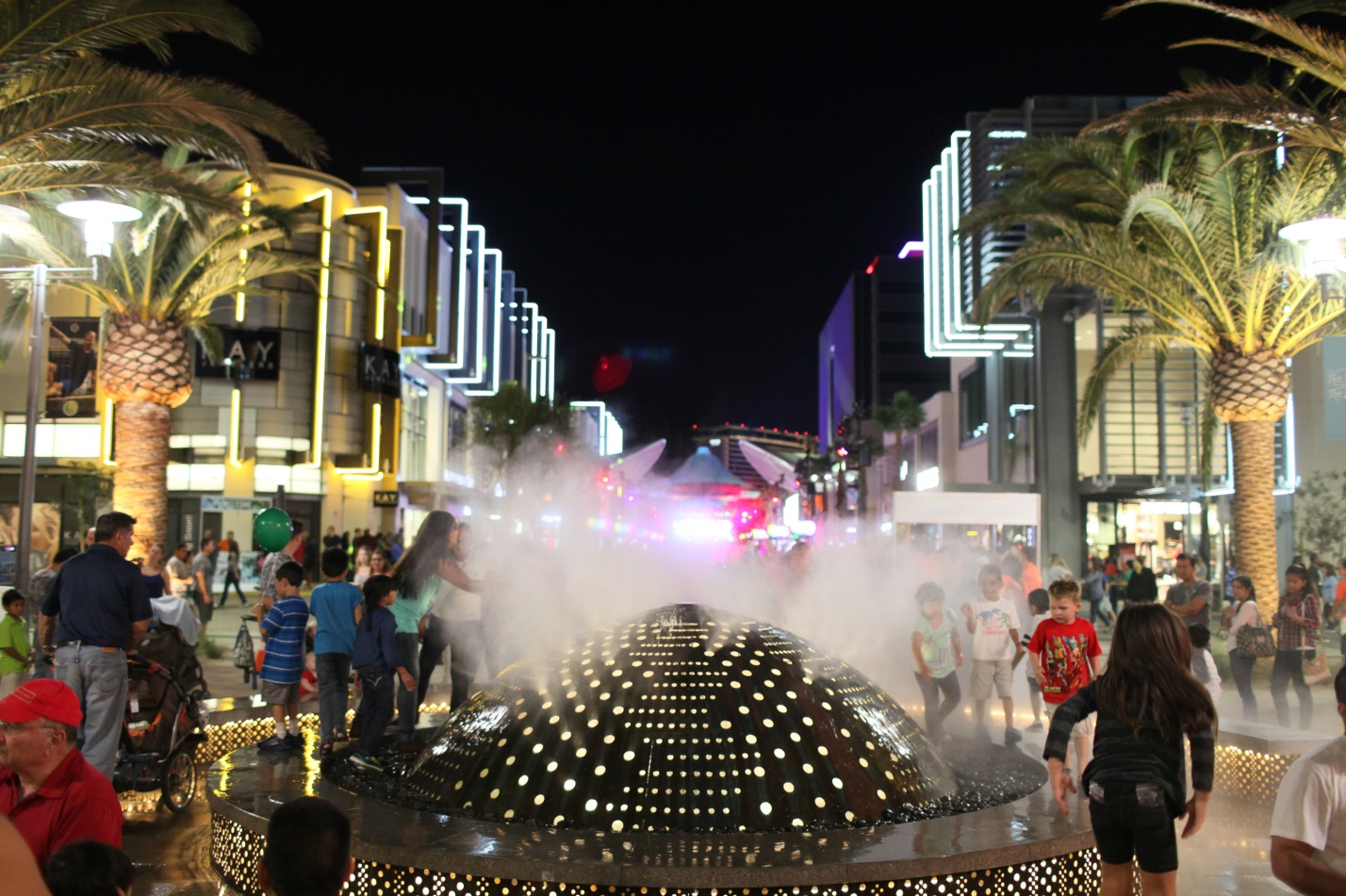 Downtown Summerlin, Las Vegas, Nevada